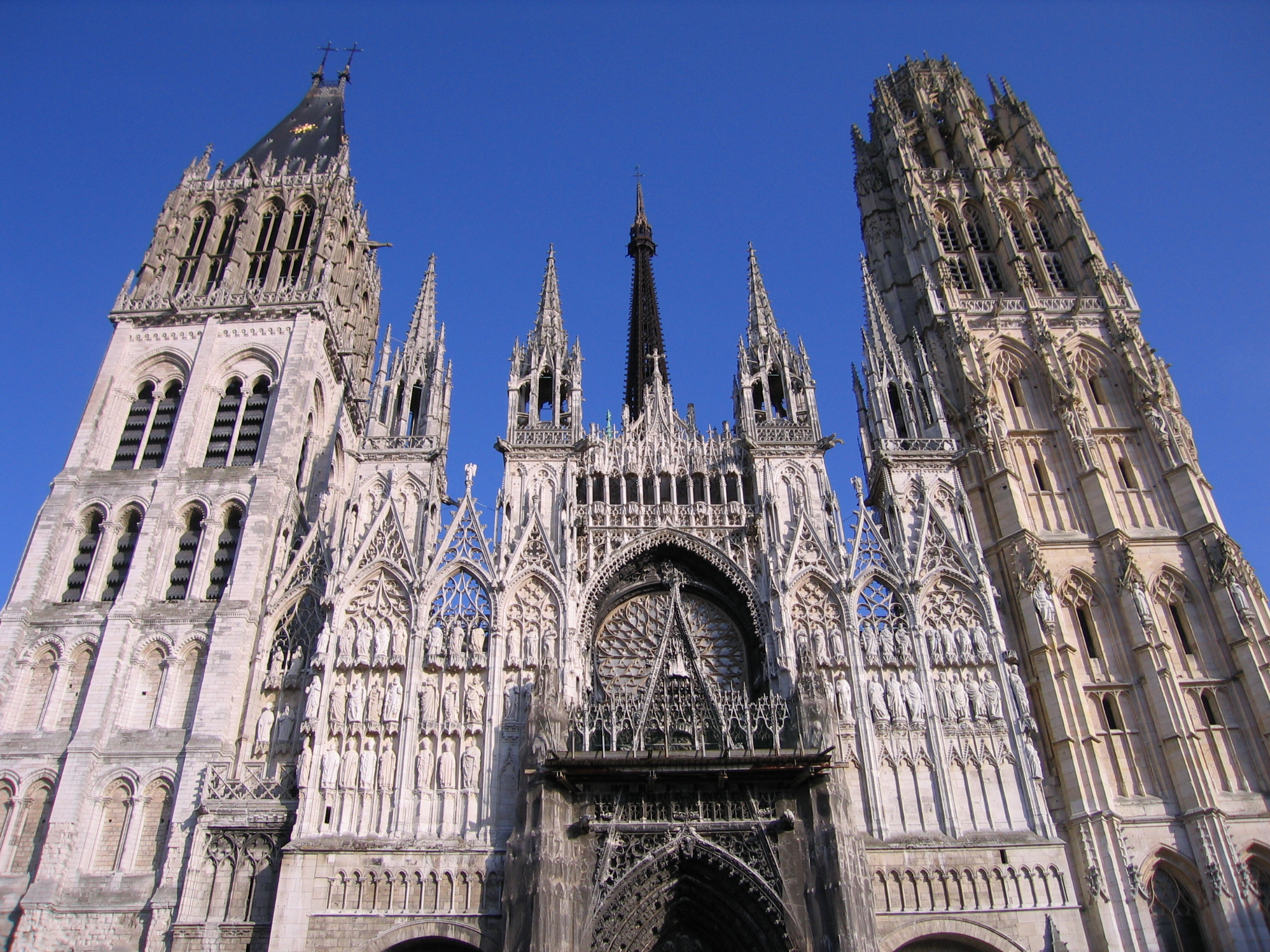 Cathedral of Rouen